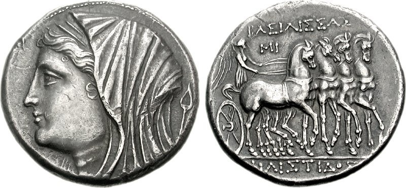 Sicily, Syracuse. Philistis, wife of Hieron II. 275-215 BC. AR 16 Litrai – Tetradrachm (13.42 g, 6h). Struck circa 218/7-214 BC. Diademed and veiled bust left; spear to right BAΣIΛIΣΣAΣ ΦIΛIΣTIΔOΣ, Nike, holding reins in both hands, driving slow quadriga right; MI above. CCO 182 (D19/R32); BAR Issue 65; SNG ANS -; SNG Lloyd -; Basel -; SKA 3, lot 135 (same dies); G. Manganaro, “Un ripostiglio siciliano del 214-211 a. C. e la datazione del denarius” in JNG 31/32, 1 (same dies). Good VF, toned, a few minor marks under tone. Ex A.D.M. Collection (Numismatic Ars Classica O, 13 May 2004), lot 1416.